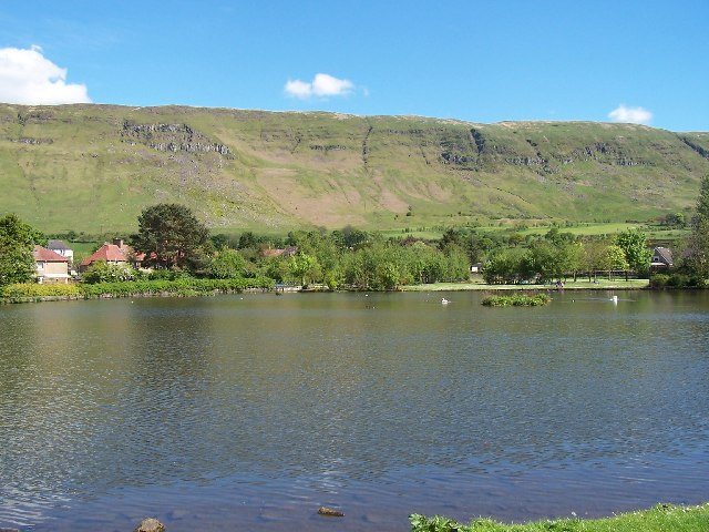 Lennoxtown Dam, East Dunbartonshire, with the Campsie Fells behind